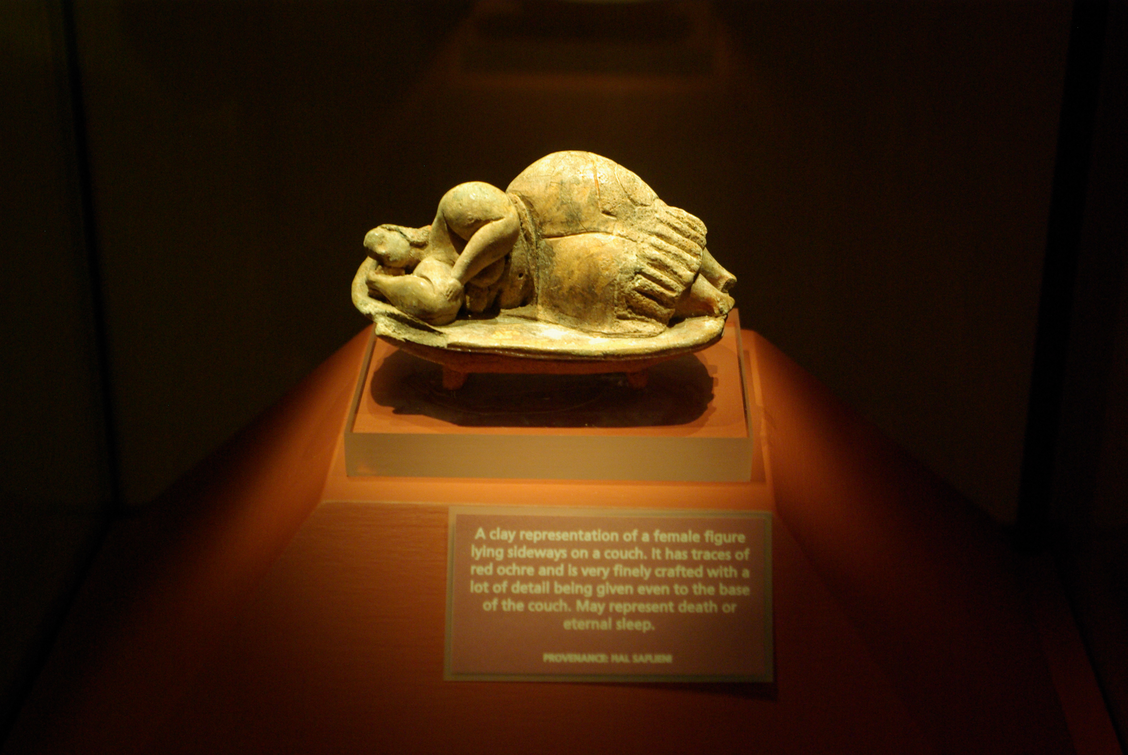 Malta Valletta, National Museum of Archaelogy